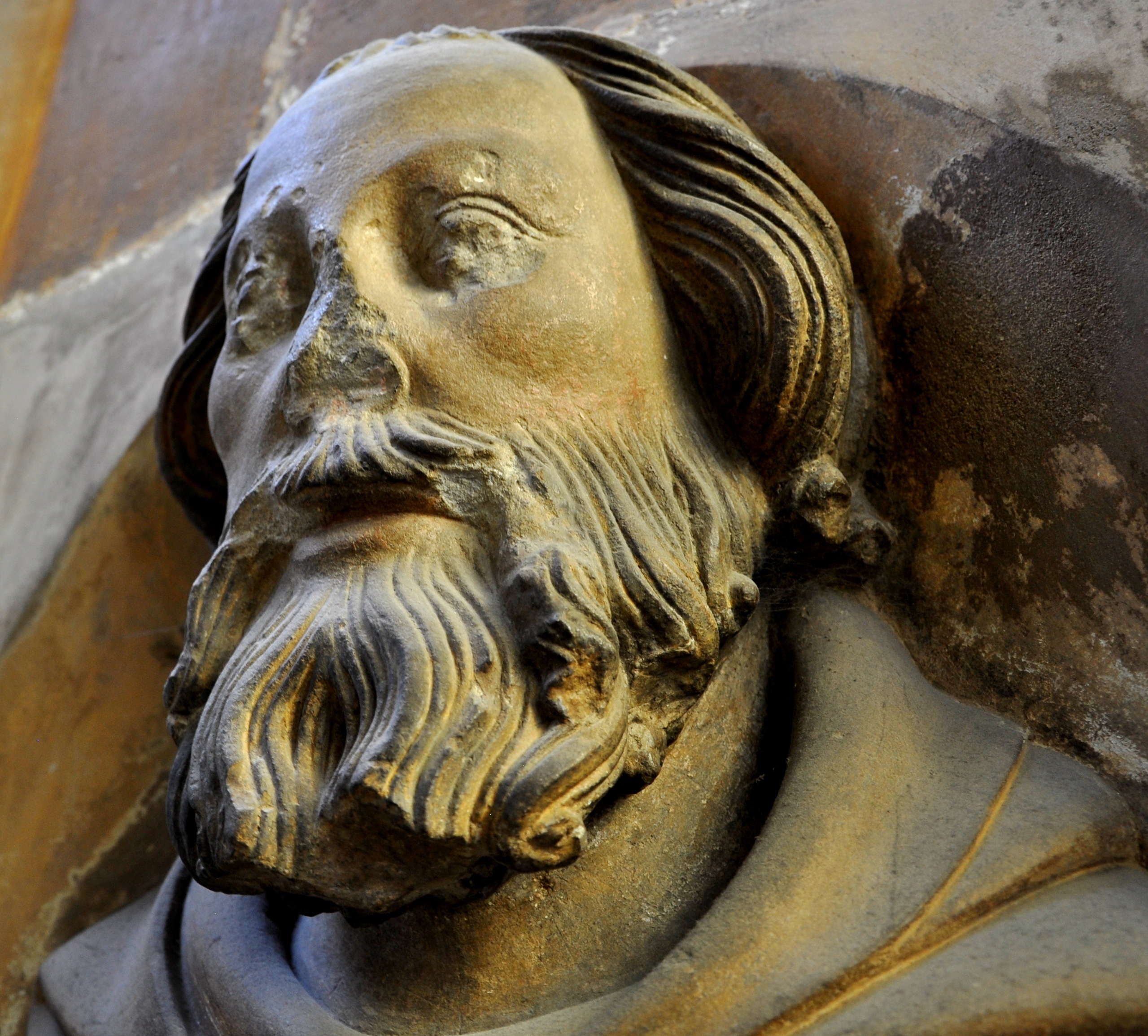 Matthias of Arras, the first architect of St. Vitus Cathedral. Sandstone, 1370s.